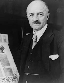 Dr. Otto Vollbehr, half-length portrait, facing front, standing next to a rare volume of printers' bookmarks which he donated to the Library of Congress